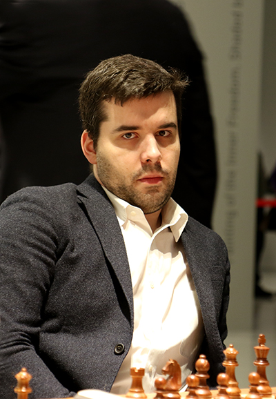 Ian Nepomniachtchi at the Tal Memorial 2018